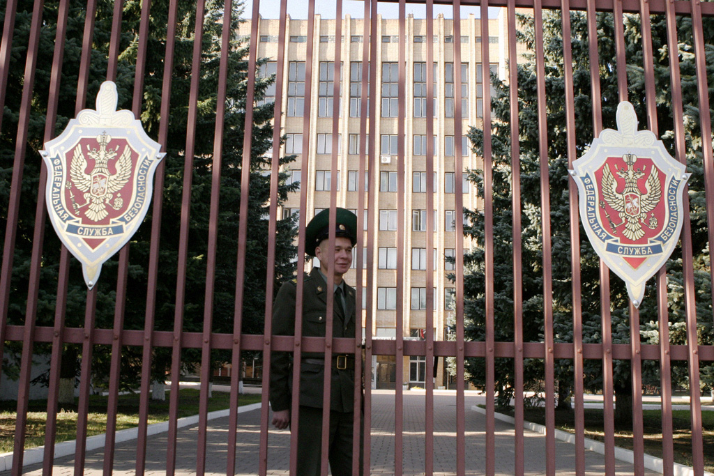 “Golitsyn Frontier Guards Military Institute”. The Golitsyn Frontier Guards Military Institute, Federal Security Service, Russia.